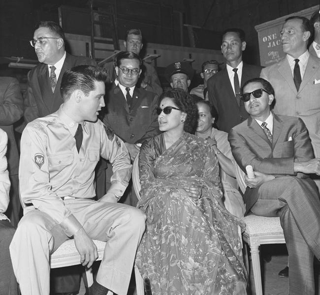 Elvis Presley & Mahendra of Nepal Elvis Presley entertains King Mehendra and Queen Ratna of Nepal on a movie set. The royal couple plan to visit Disneyland today, go to El Segundo tomorrow to see refinery.